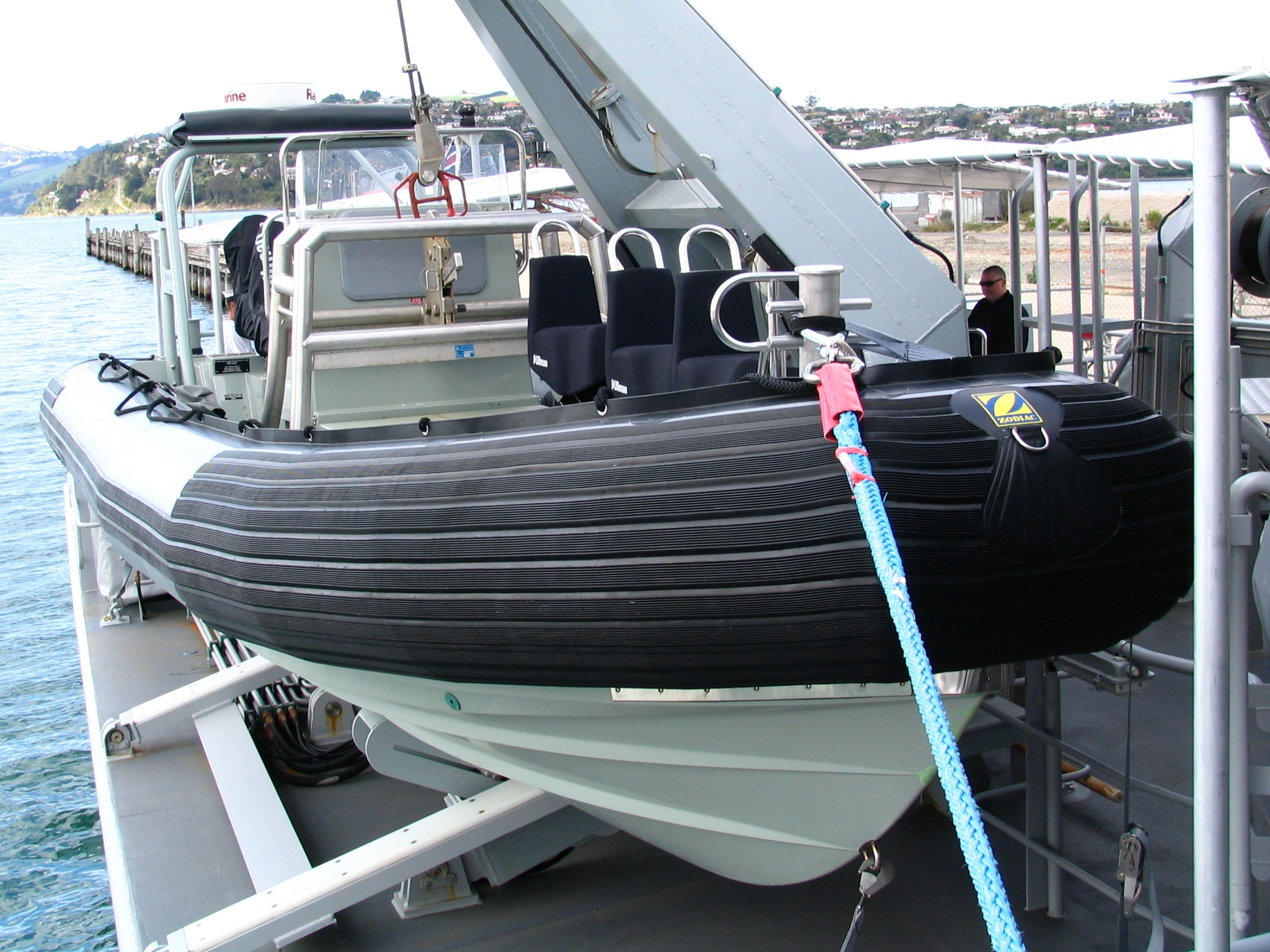 Zodiac of HMNZS Hawea in Dunedin, New Zealand